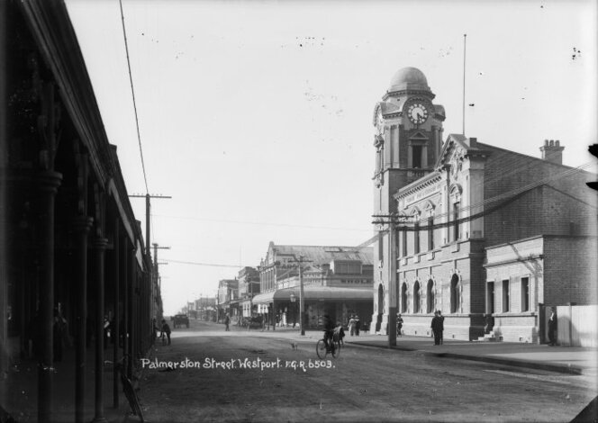 Westport Post Office in circa 1916